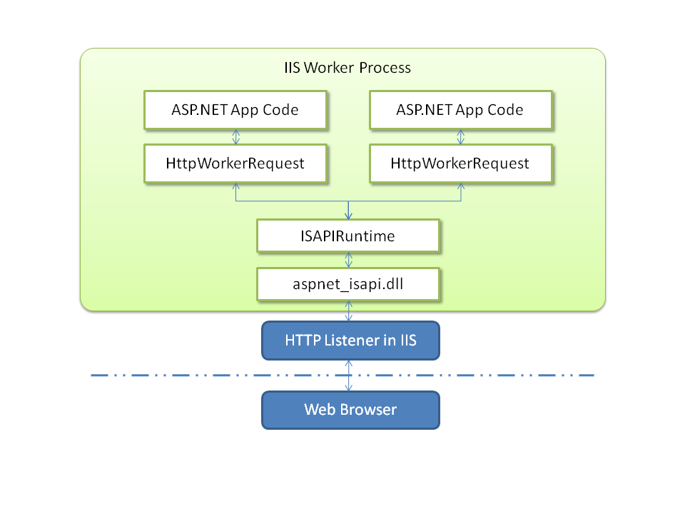 IIS runtime architecture.